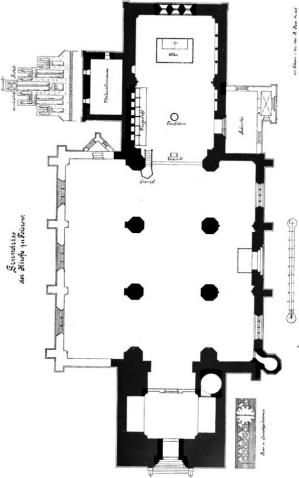 ground plan of Stadtkirche Teterow in 1902